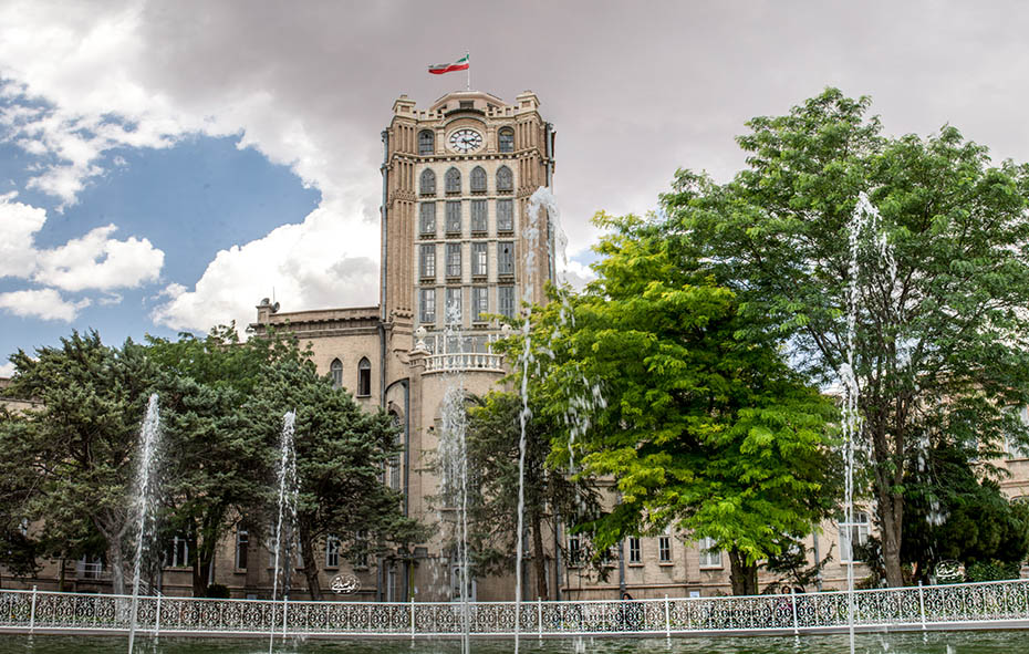 The Saat Tower, is used to be Tabriz Municipality, but due to its historical value, now is museum.